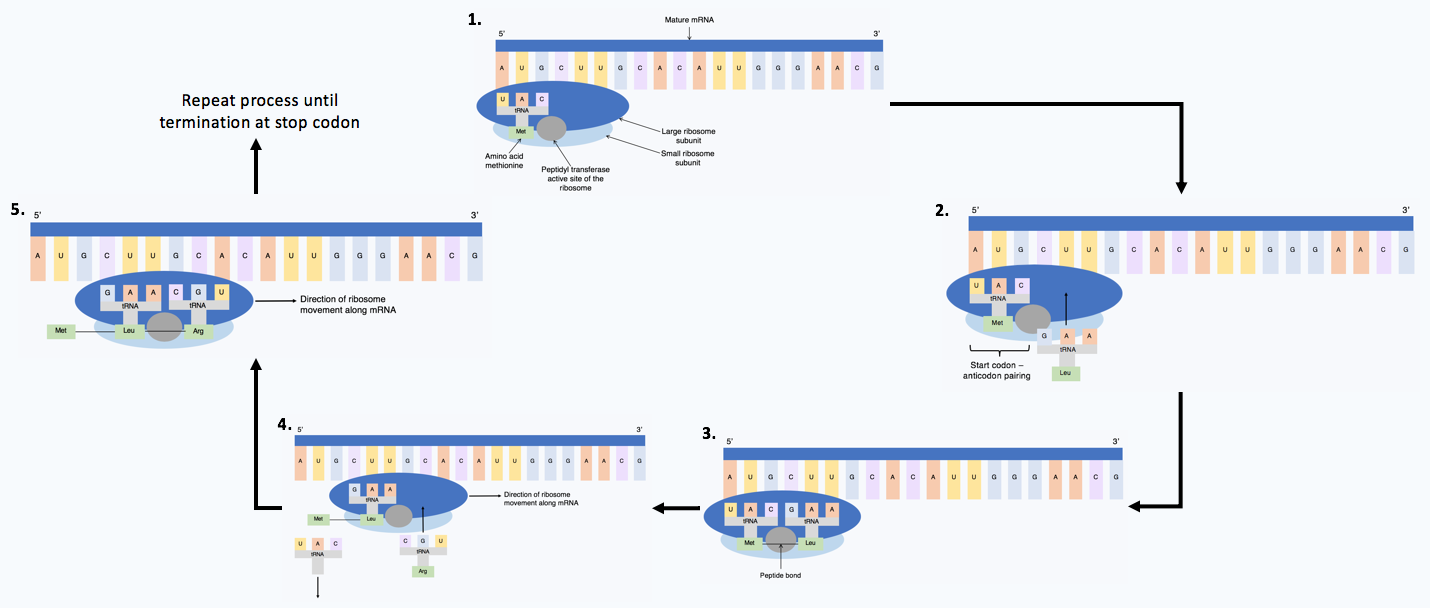 Translation process showing the cycle of tRNA movement and amino acid incorporation into the growing polypeptide chain until a stop codon is reaching, terminating translation.